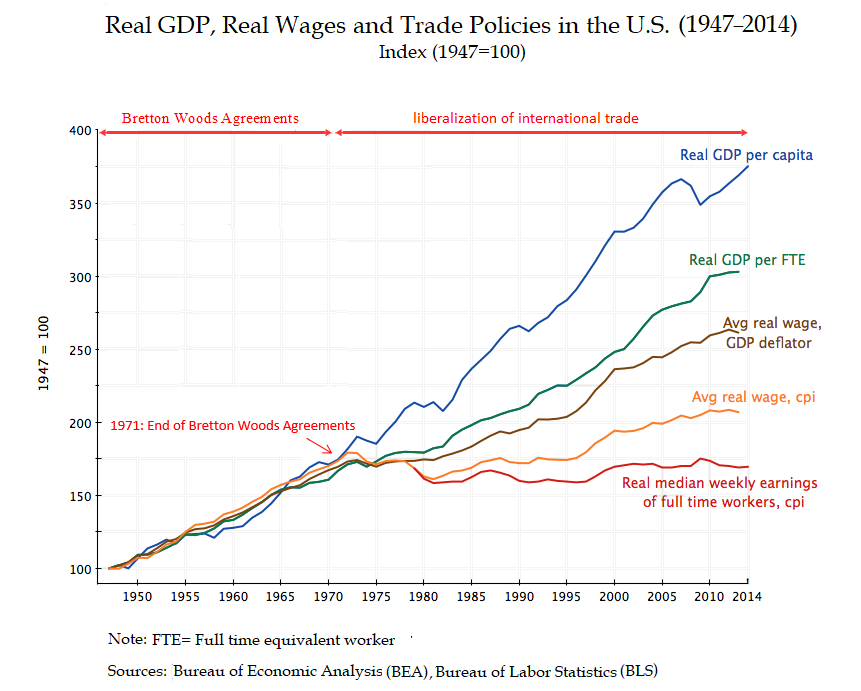 Real GDP, Real Wages and Trade Policies in the U.S. (1947– 2014)